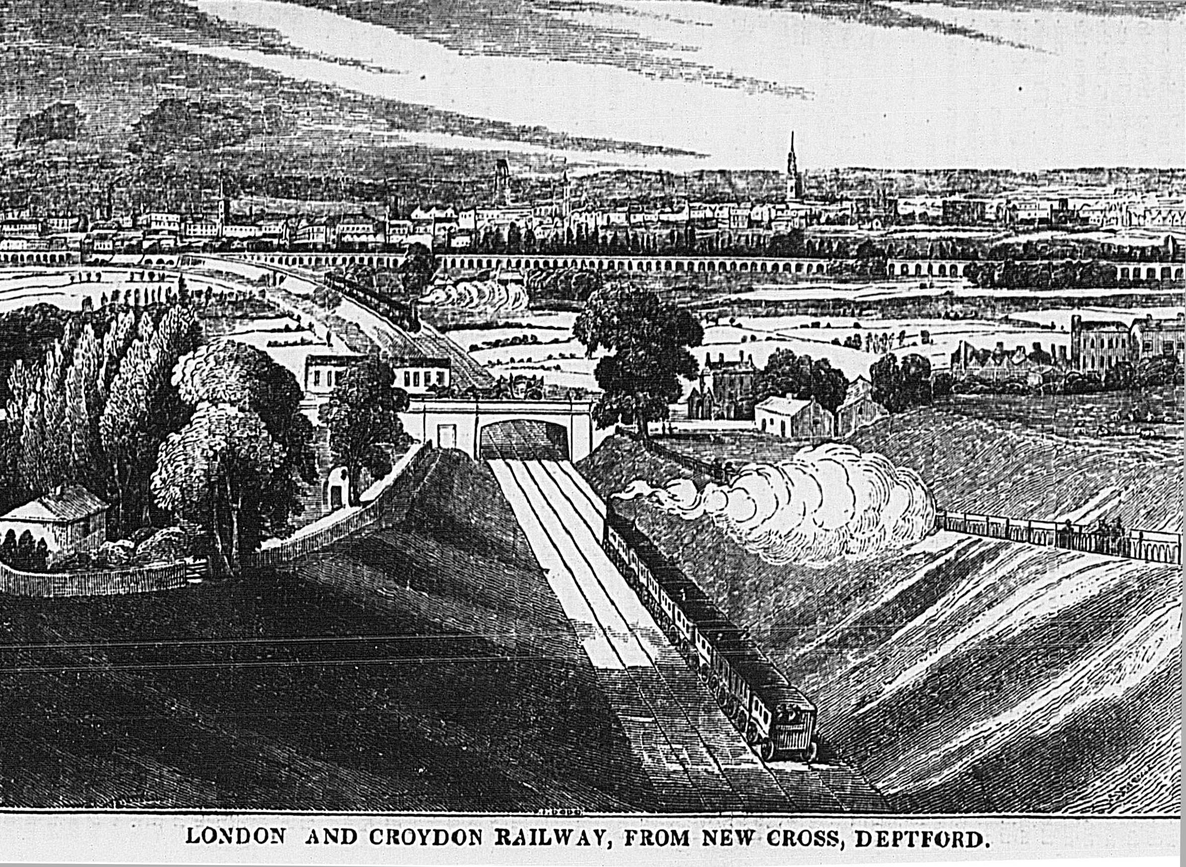 A view of New Cross on the London and Croydon Railway, 1839. The station is to the left of the road bridge. The London and Greenwich Railway on viaducts is visible in the background.